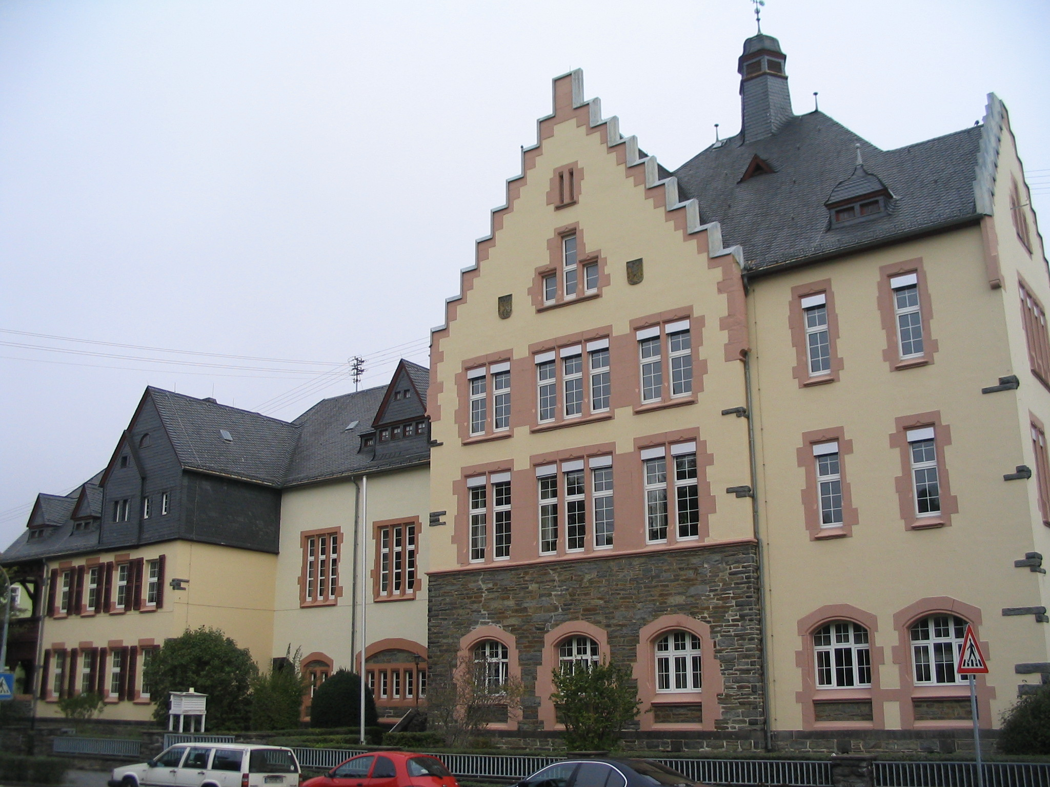 View of the older part of the Kant-Gymnasium in Boppard, Germany, from the Mainzer Straße.